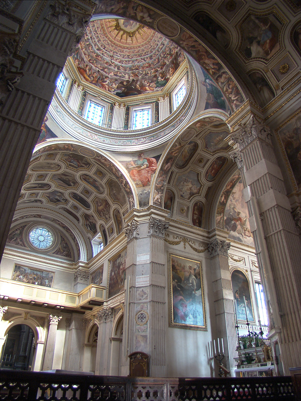 Duomo, Mantua, Lombardy, Italy.